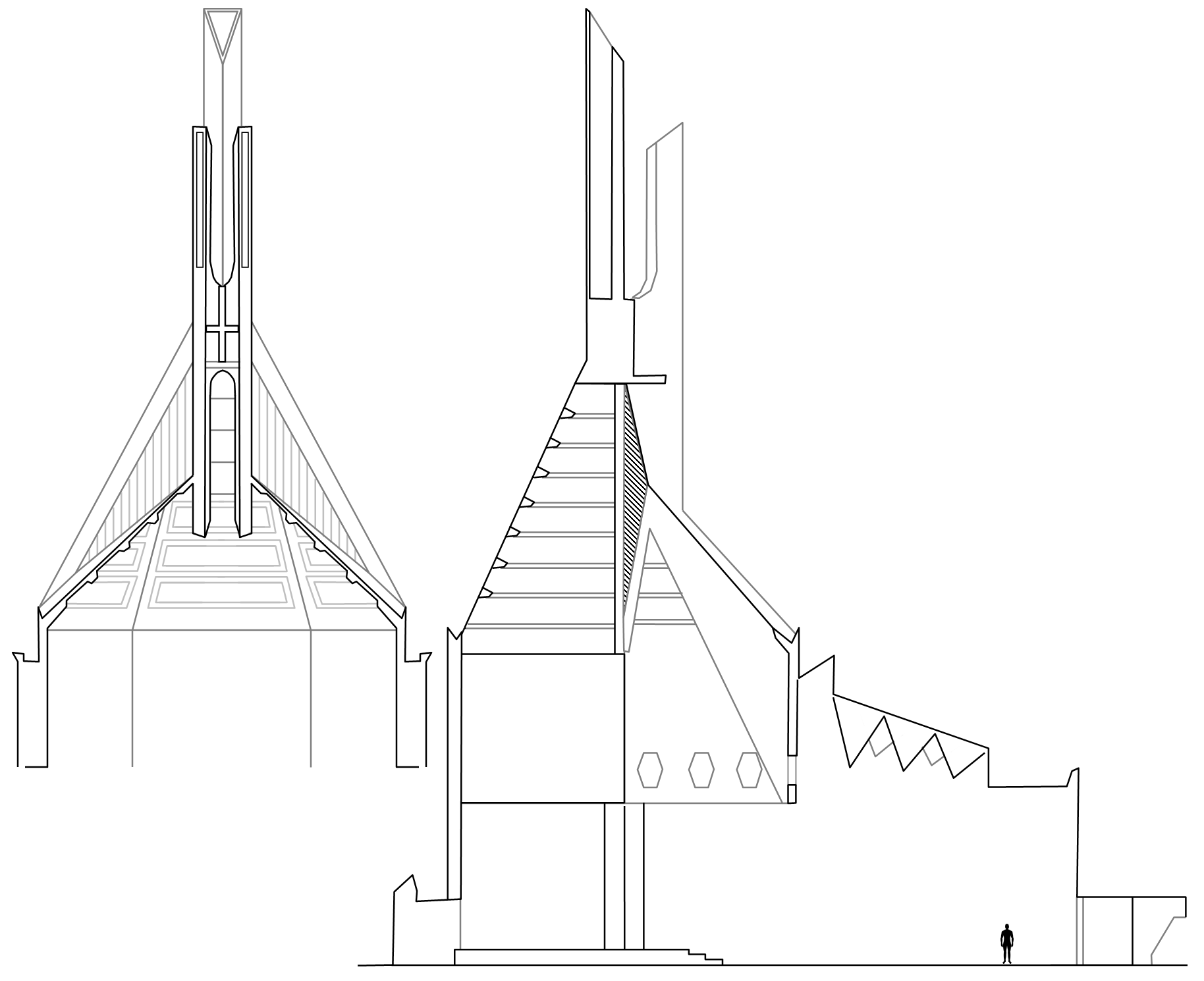 Clifton Cathedral, Clifton Park, Bristol BS8 3BX, United Kingdom